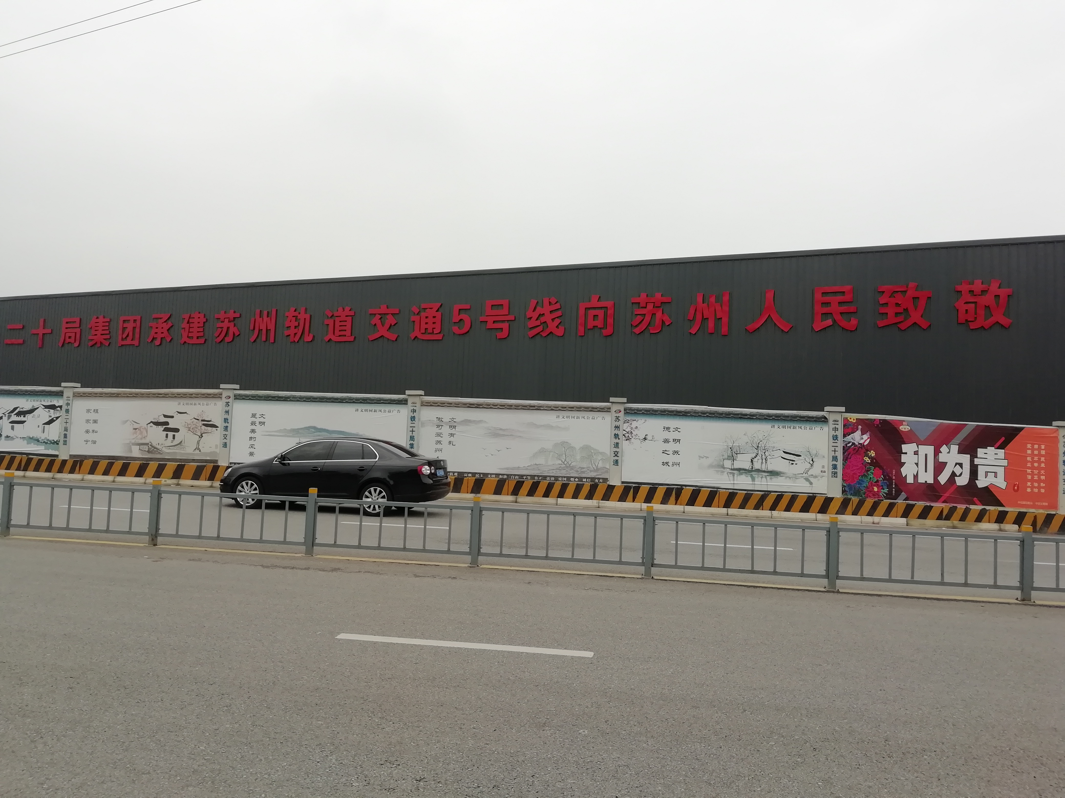 Construction site of Line 5, Suzhou Rail Transit, located on Xingtang Street.